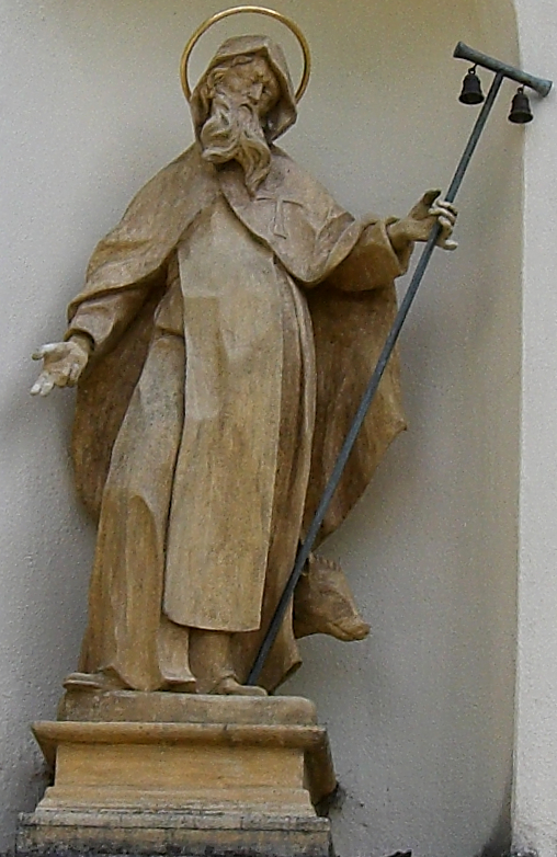 The statue was replicated in concrete by Brenzinger & Cie. - the originals can be found in Kirchzarten. Sculpturer: Matthias Faller.